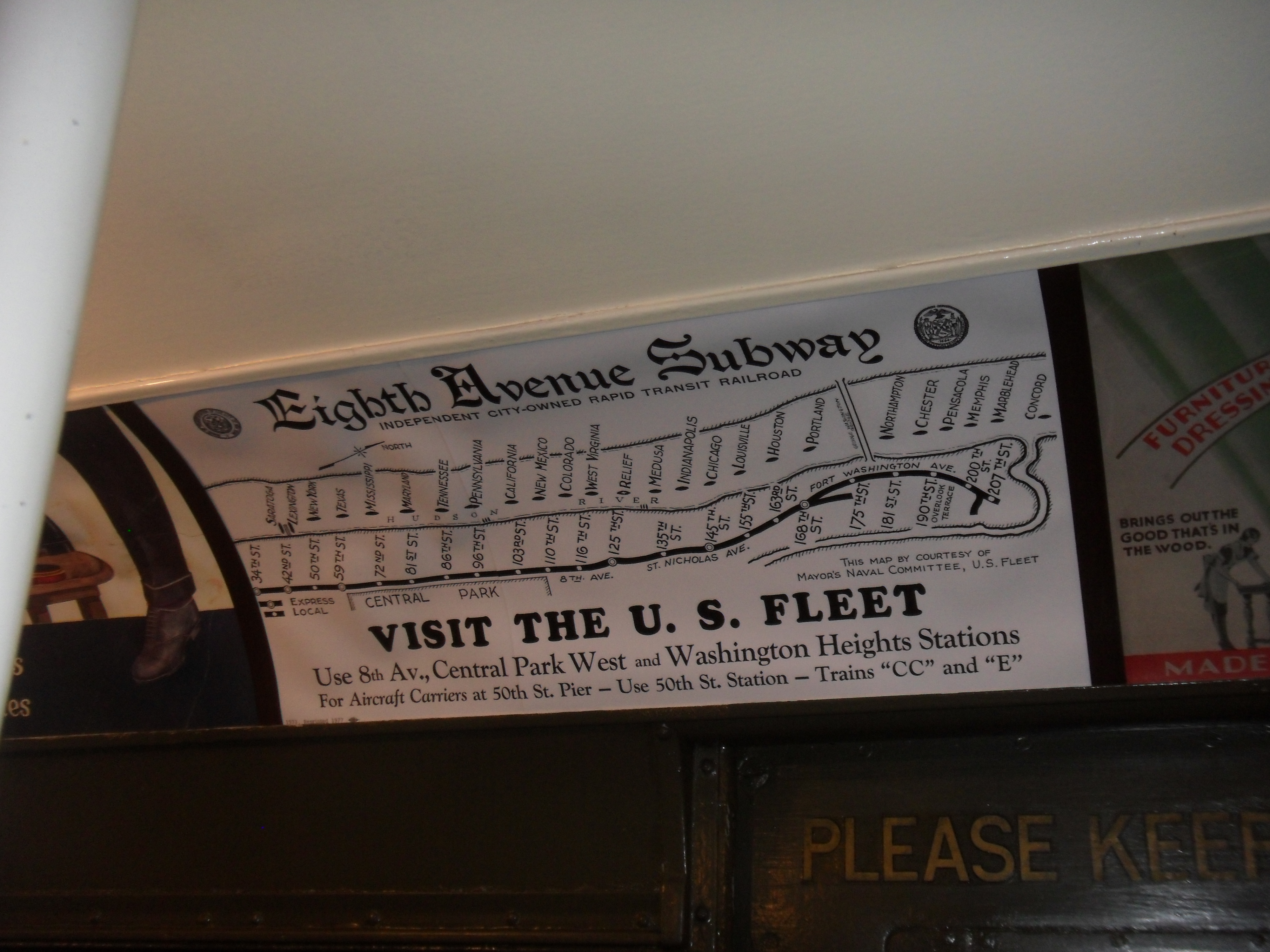 8th Avenue Subway/Visit the US Fleet map in old subway car at the New York Transit Museum